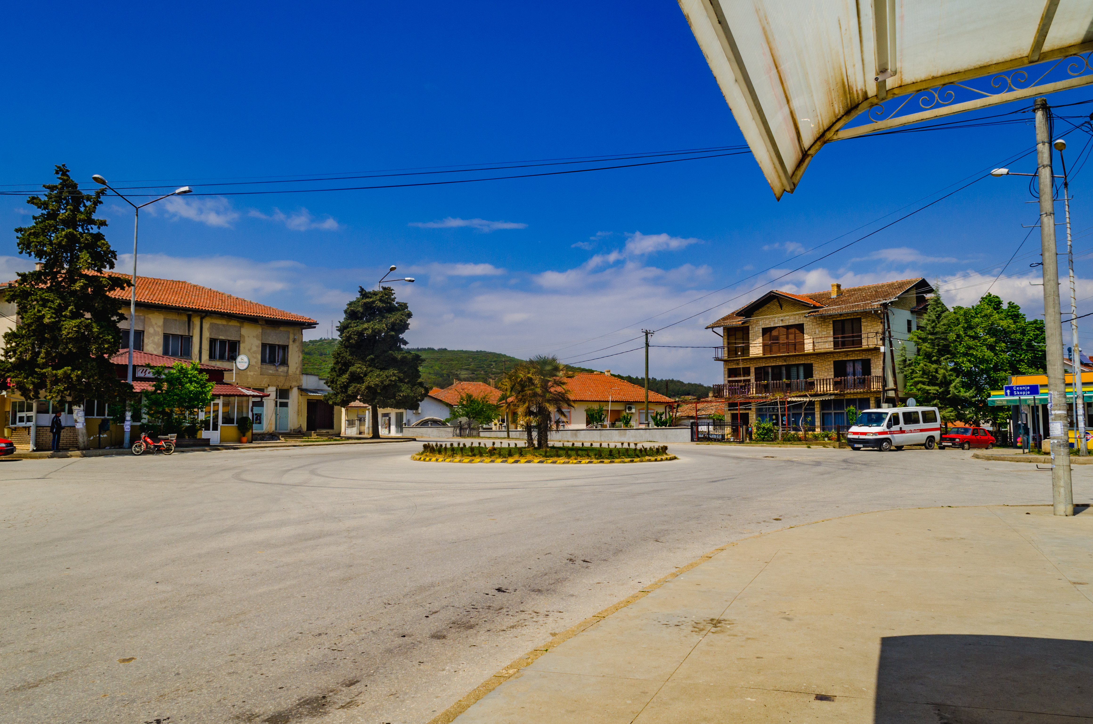 View of the center in the village Negorci